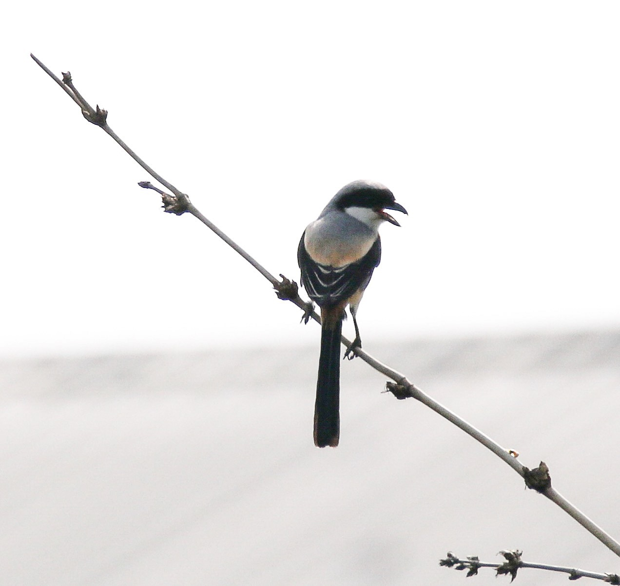 Long-tailed Shrike